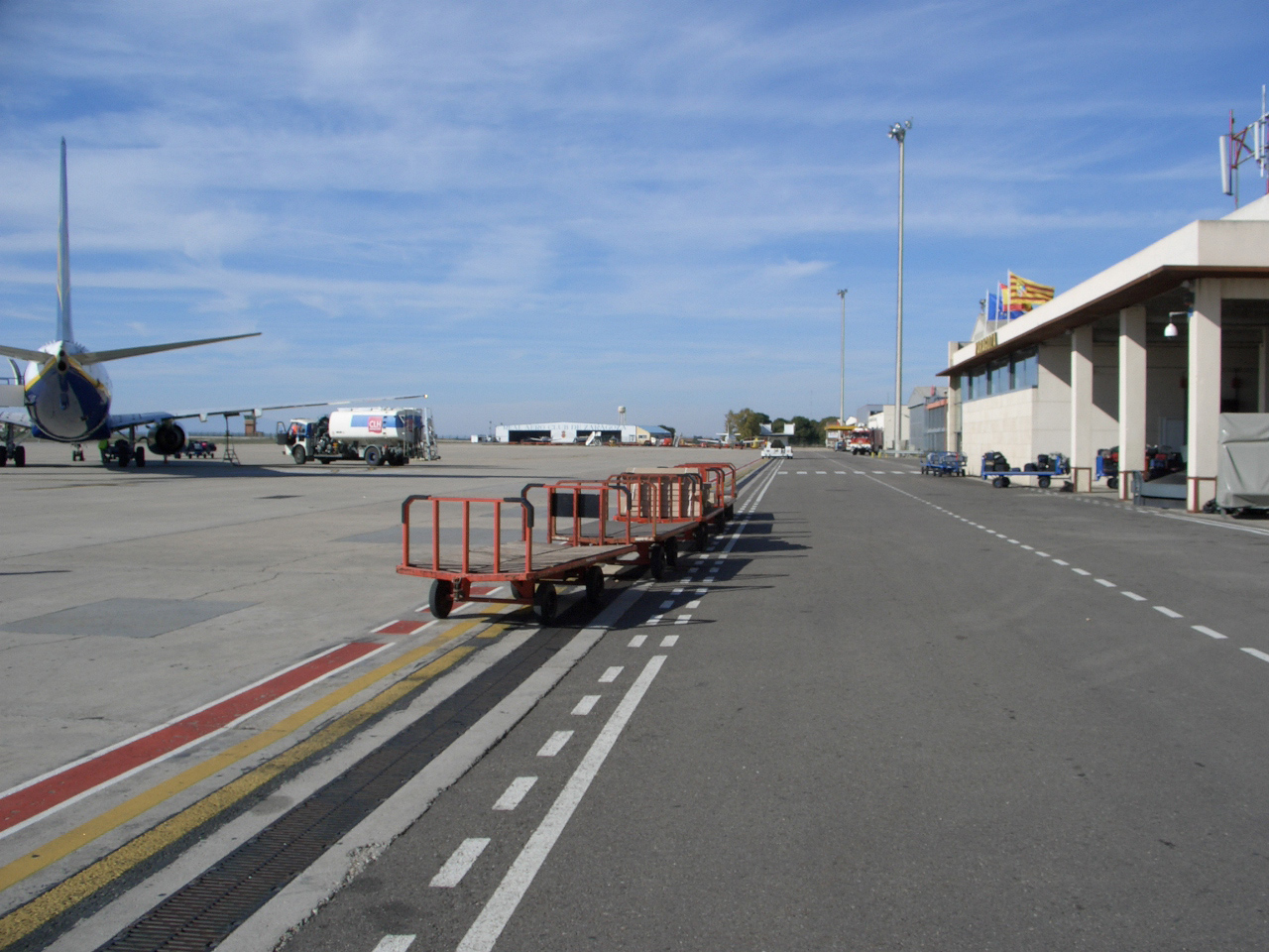 Zaragoza airport. In the distance is the Real Aero Club de Zaragoza